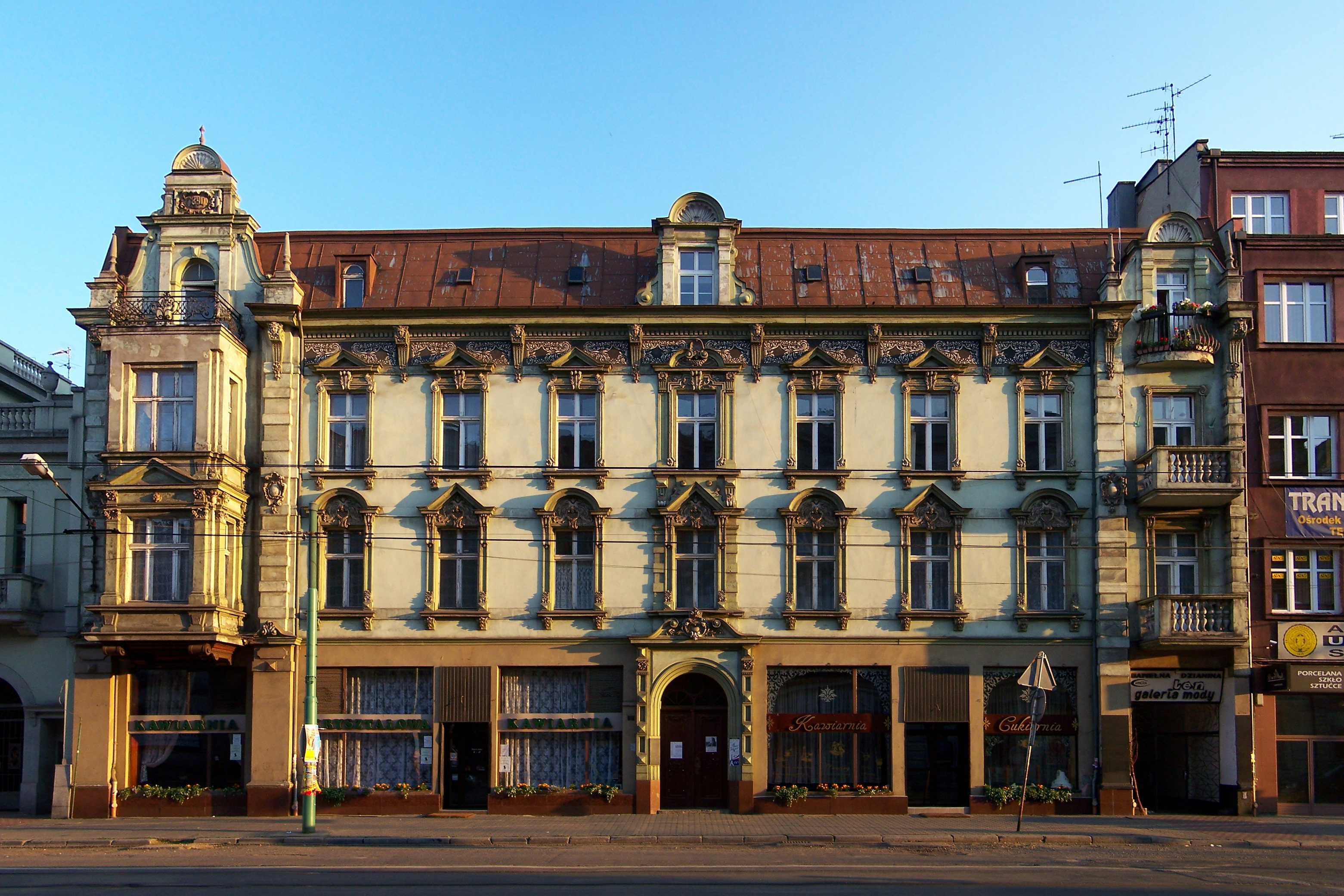 Tenement house on the Warszawska Street in Katowice (Poland).